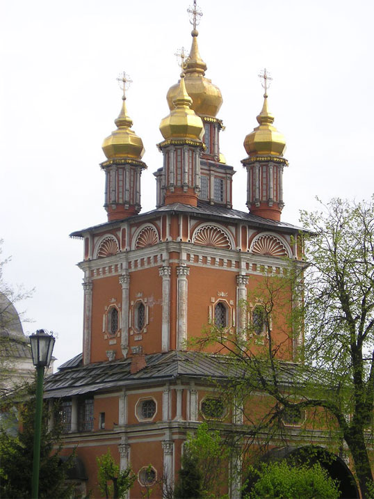 Church of St. John the Baptist (1693-99), Troitse-Sergieva Lavra